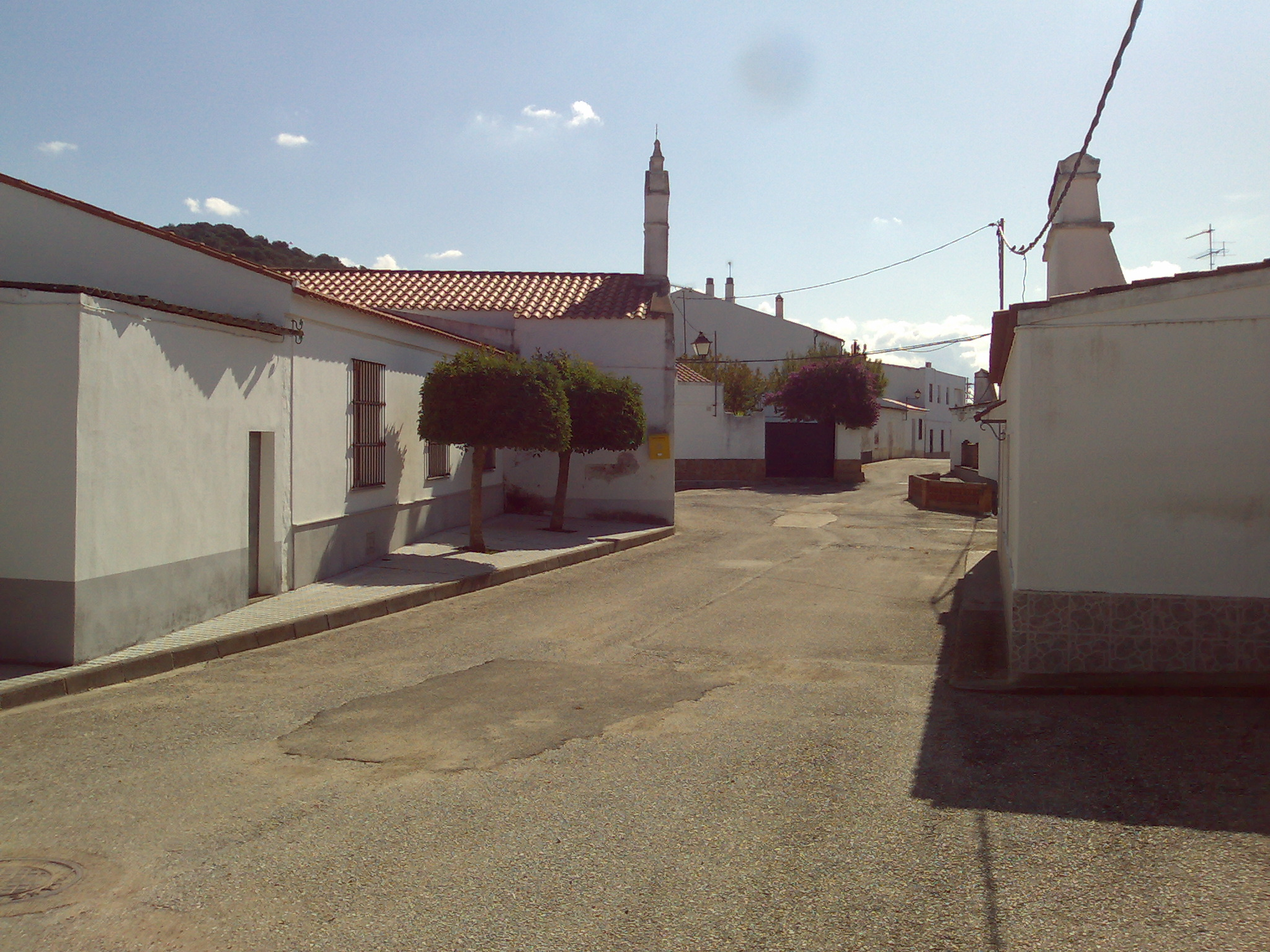 São Domingos de Gusmão (Olivença)